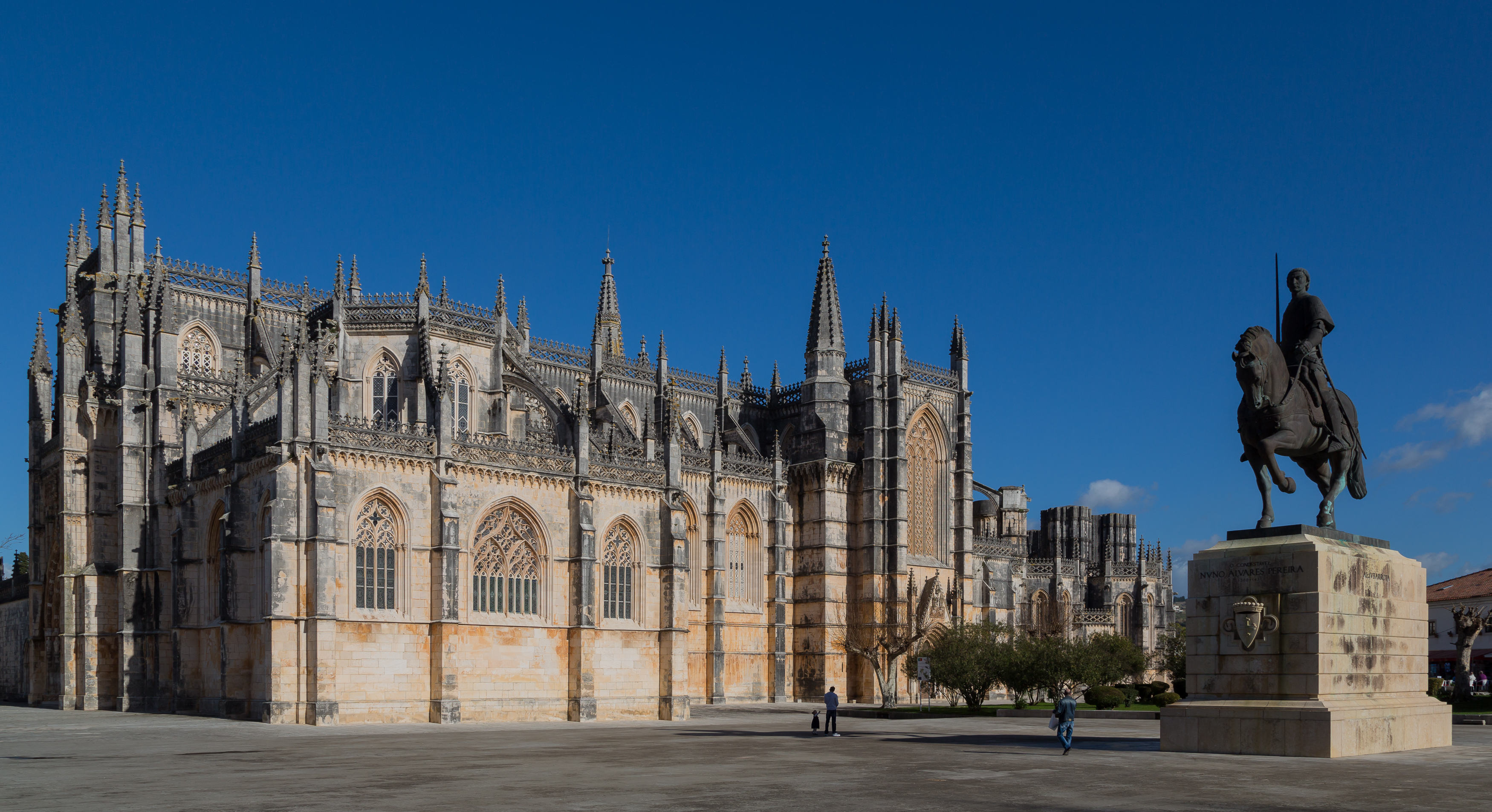 Batalha, Portugal: Mosteiro da Batalha with Monumento a D. Nuno Álvares Pereira